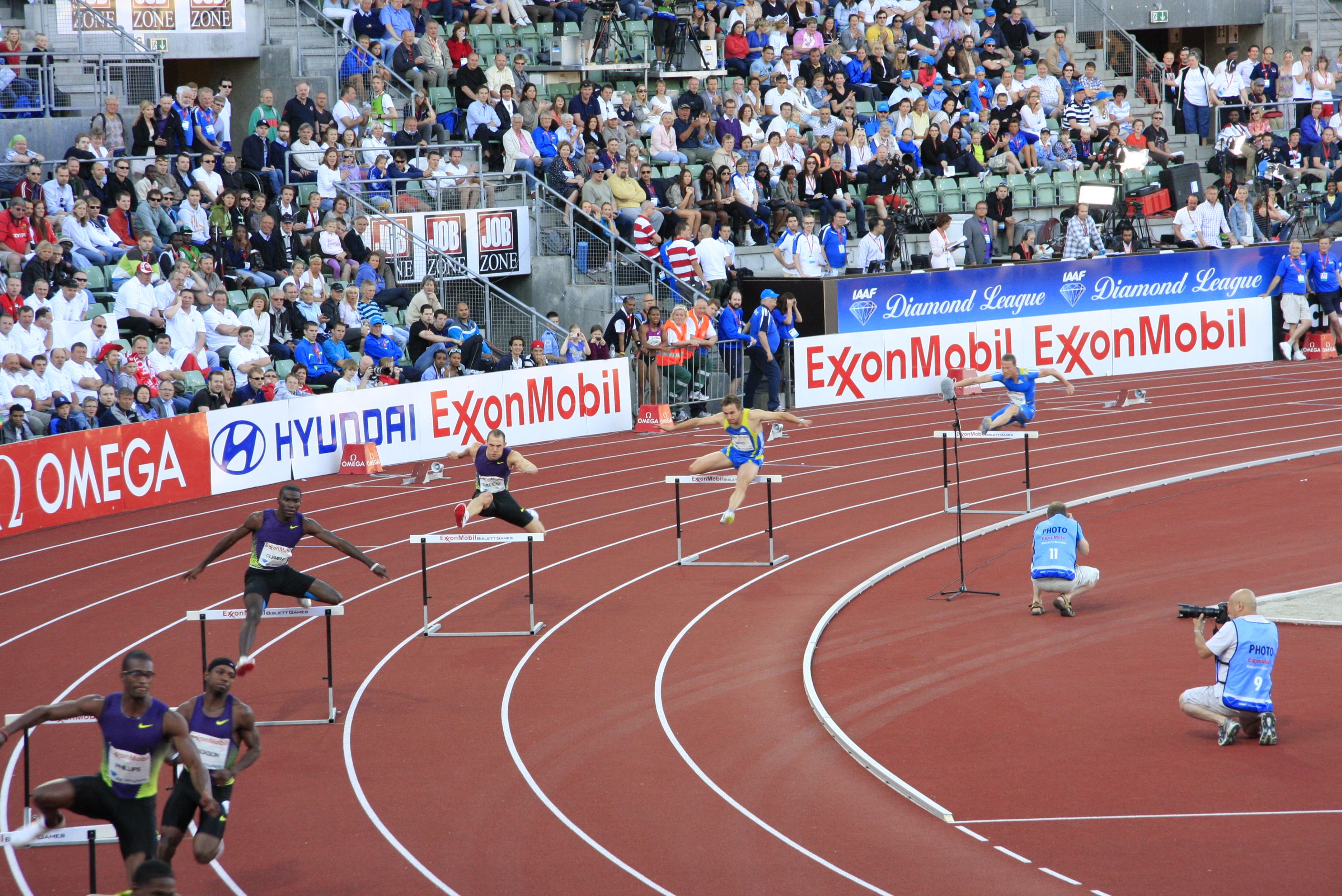 400 meters hurdles run at Bislett Games 2010: Isa Phillips, Bershawn Jackson, Kerron Clement, David Greene, L. J. van Zyl, Andreas Totsås